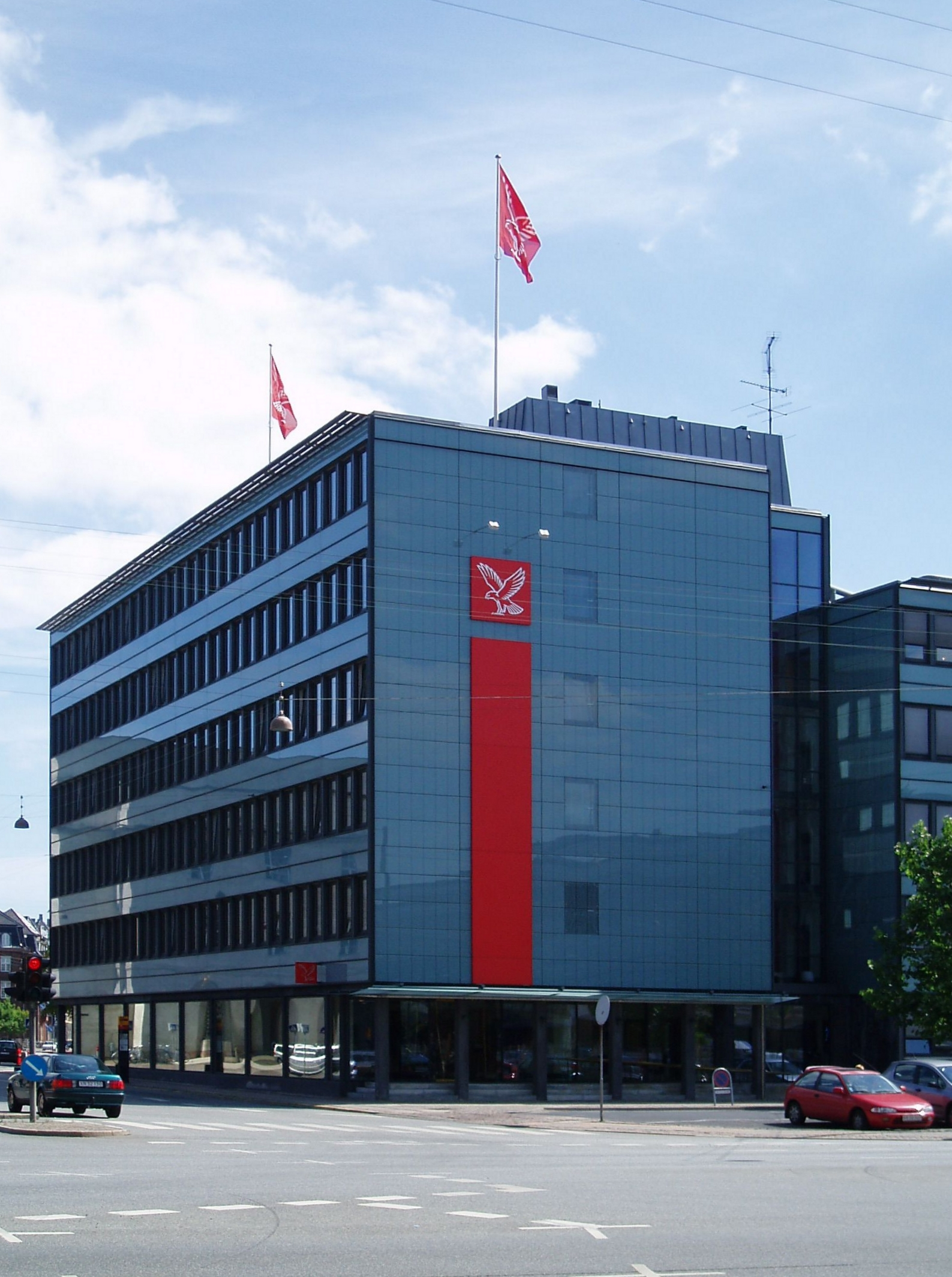 Falck (Denmark) headquarters in Copenhagen.